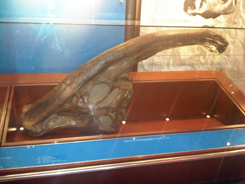 Parasaurolophus walkeri skull at the Natural History Museum in London, England.